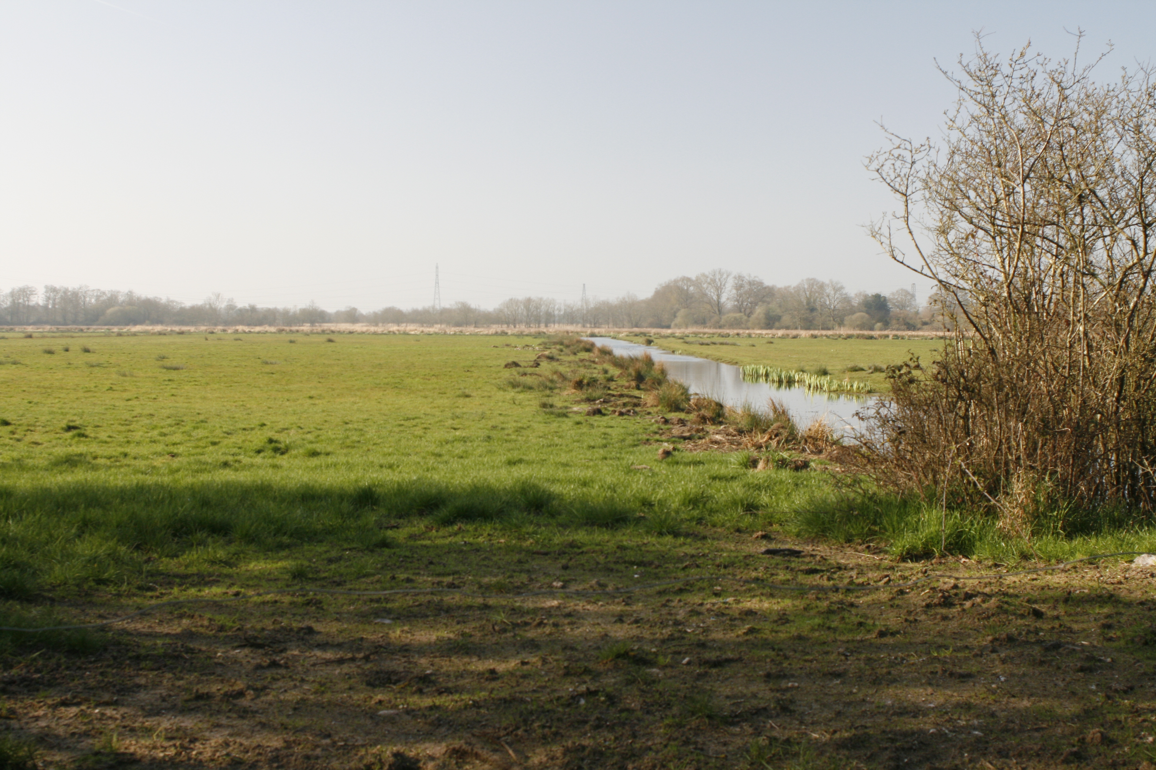 View of the marais Fresnier in Savenay, Loire-Atlantique, France